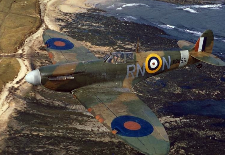 A Royal Air Force Supermarine Spitfire Mark IIA (s/n P7895, "RN-N") of No. 72 Squadron, RAF based at Acklington, Northumberland (UK), in flight over the coast, piloted by Flight Lieutenant R. Deacon Elliot.